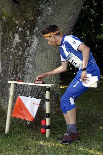 Italian Marco Seppi at the World Orienteering Championships 2006 in Aarhus, Denmark.